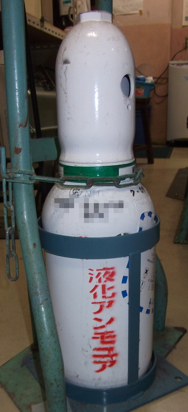 Liquified ammonia cylinder, Japanese edition.